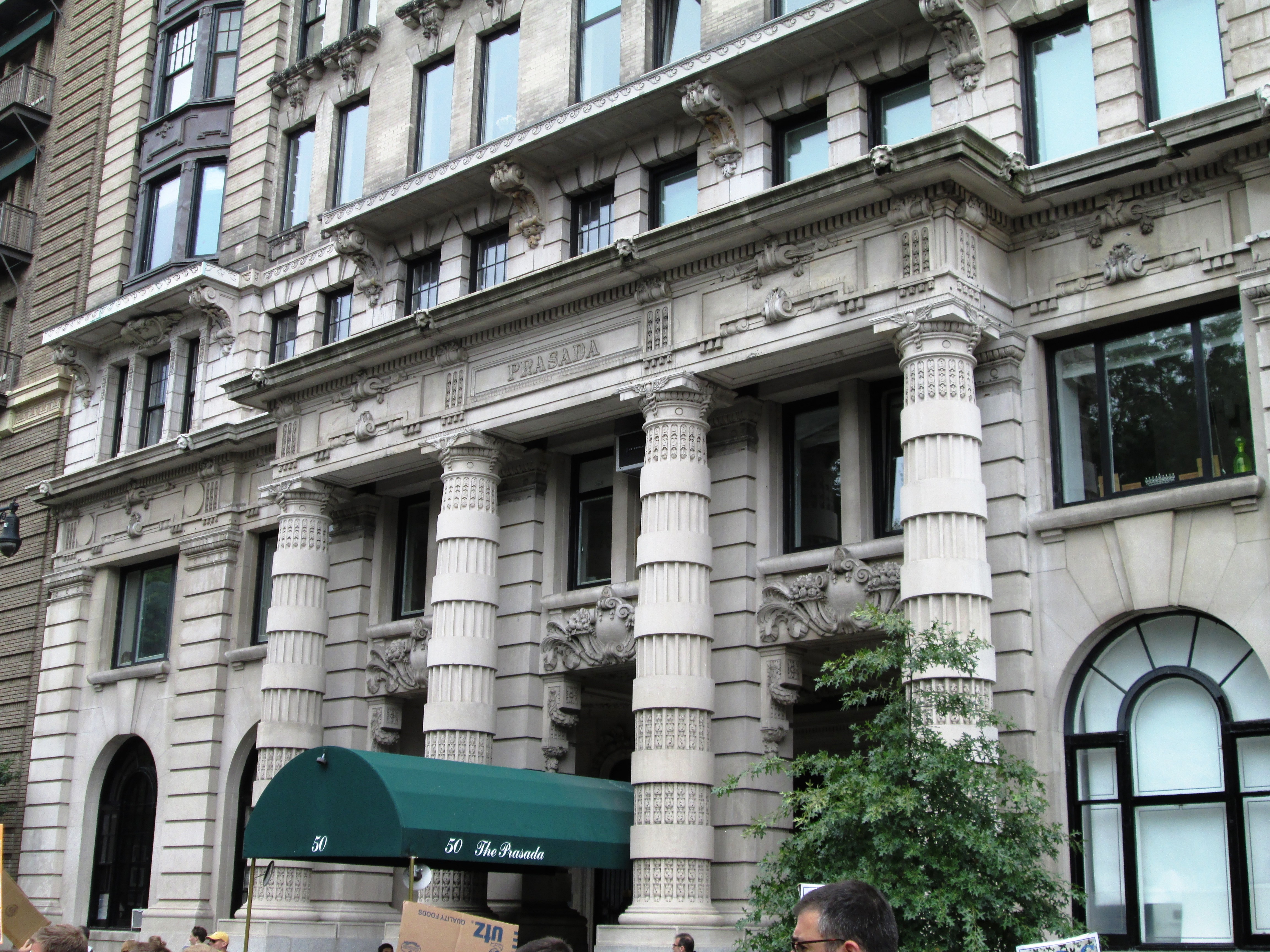 The Prasada apartment builing at 50 Central Park West at West 65th Street in the Upper West Side neighborhood of Manhattan, New York City, was built in 1905-07 and was designed by Charles William Romeyn in the Beaux-Arts style.